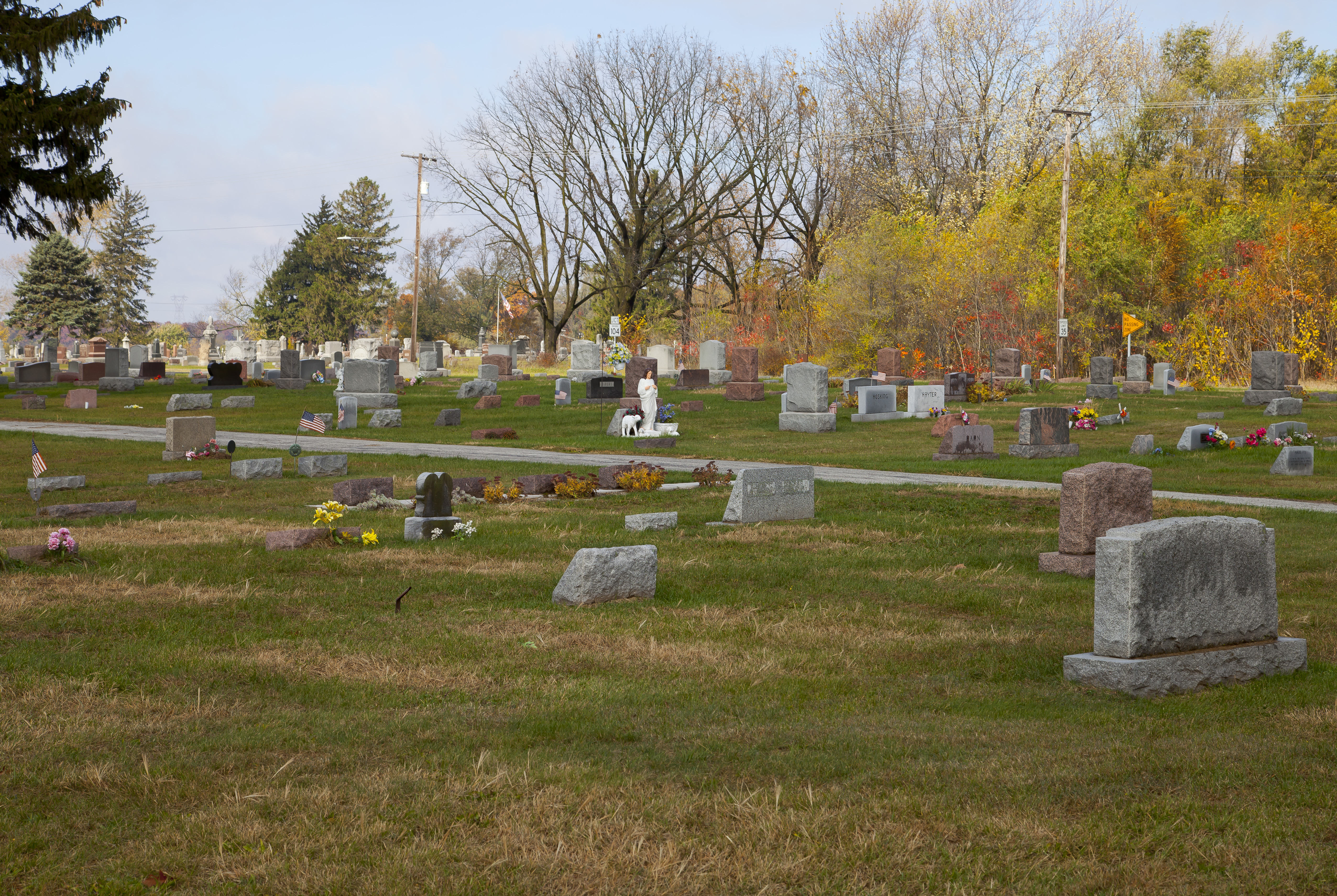 Cemetery, Walker, Indiana, USA